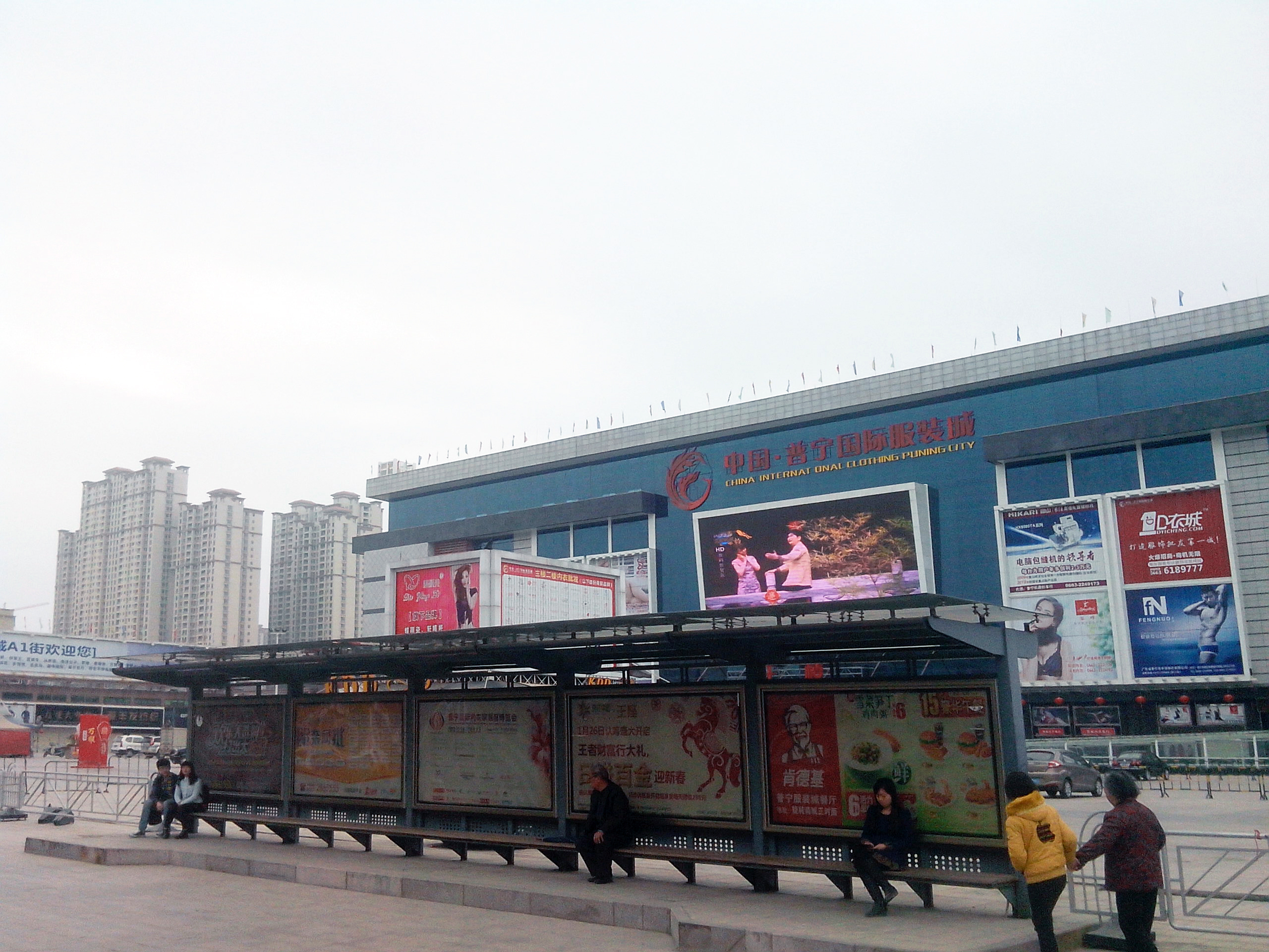 A photo of Puning Clothing Mall at Feb 2014